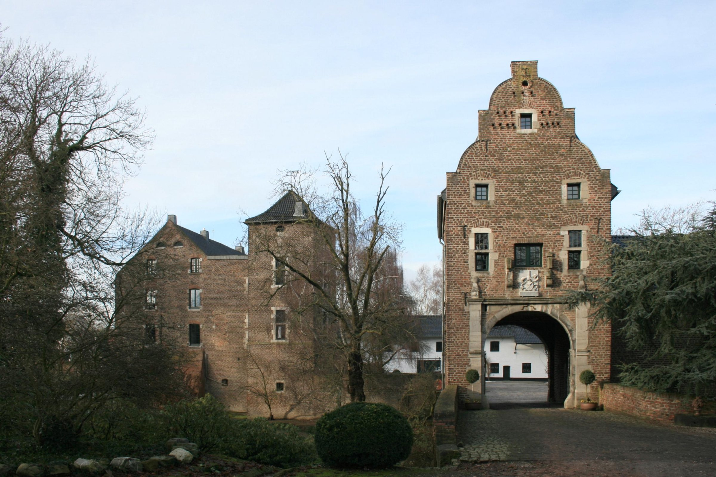 Cultural heritage monument No. 03 in Aldenhoven